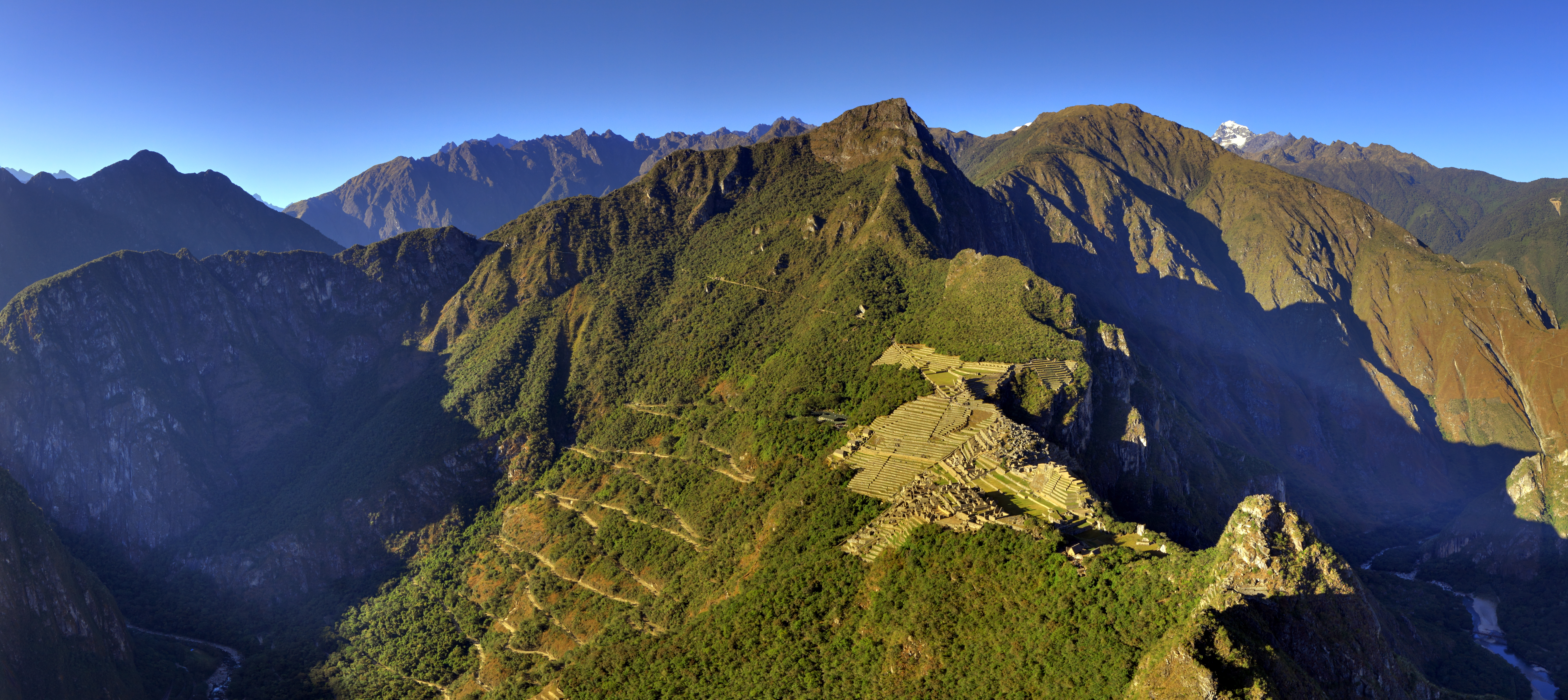 Please, have this description accessible to all by translating it in different languages.